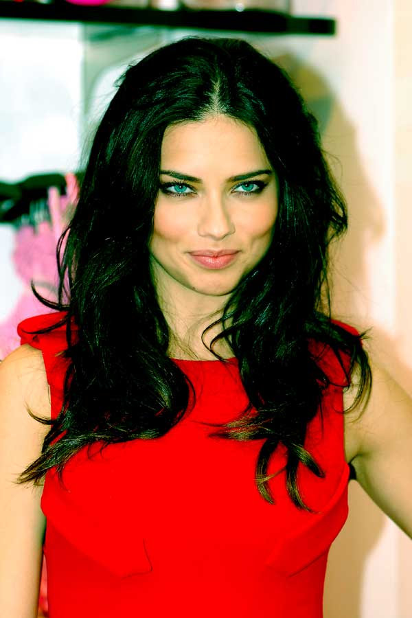 Victoria's Secret Supermodel Adriana Lima at Woodfield Mall, Schaumburg, IL, USA, December 10, 2010 Giving Fans a Peek at the Fantasy Bra. Photo by Adam Bielawski